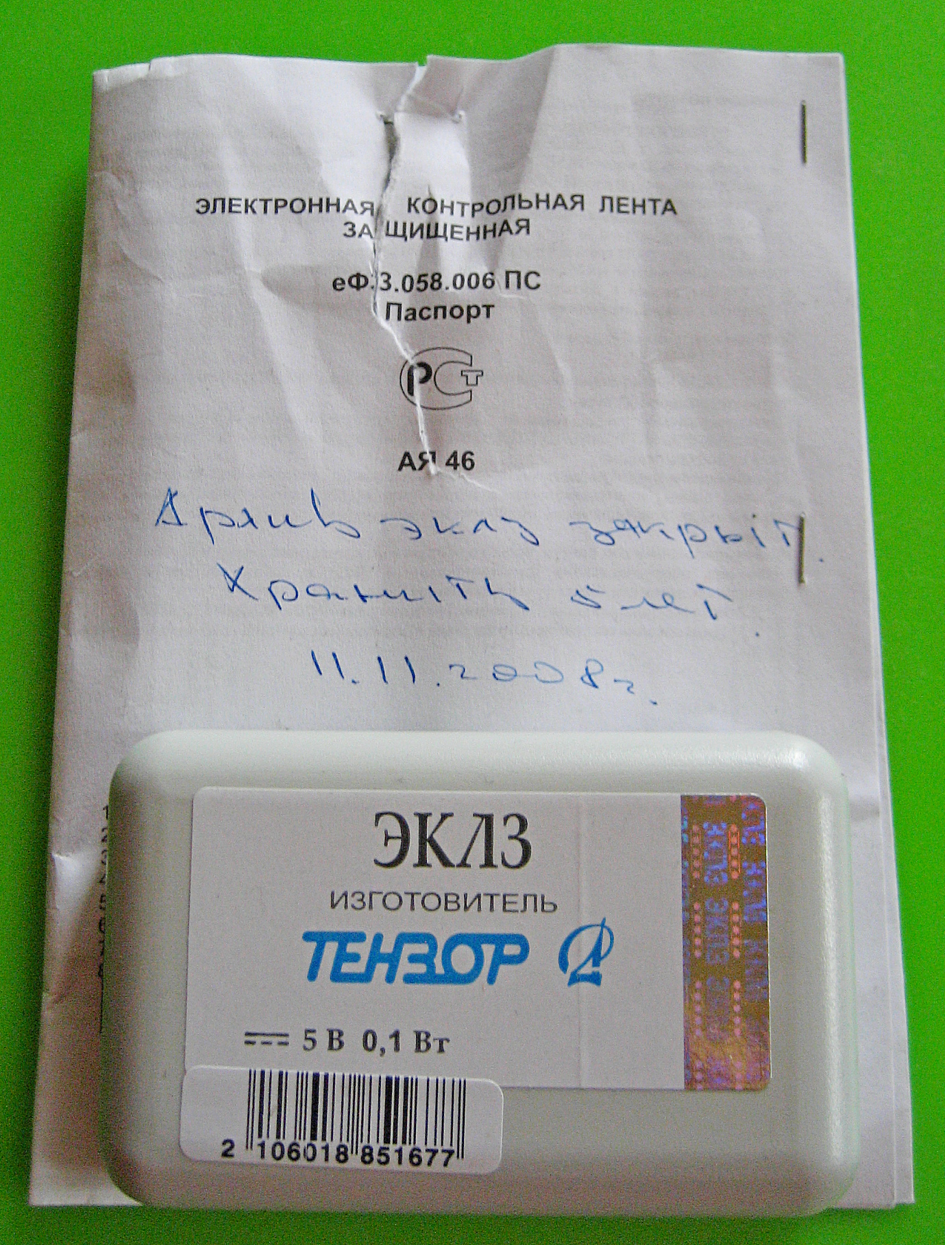 Fiscal memory device